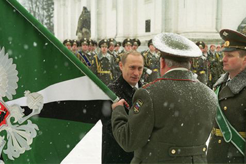 CATHEDRAL SQUARE, THE KREMLIN, MOSCOW. President Putin presenting the banner of the Railway Troops Russia Director of the Federal Service of the Railway Troops of Russia to Railway Troops Commander Colonel-General Gregory Kogatko.